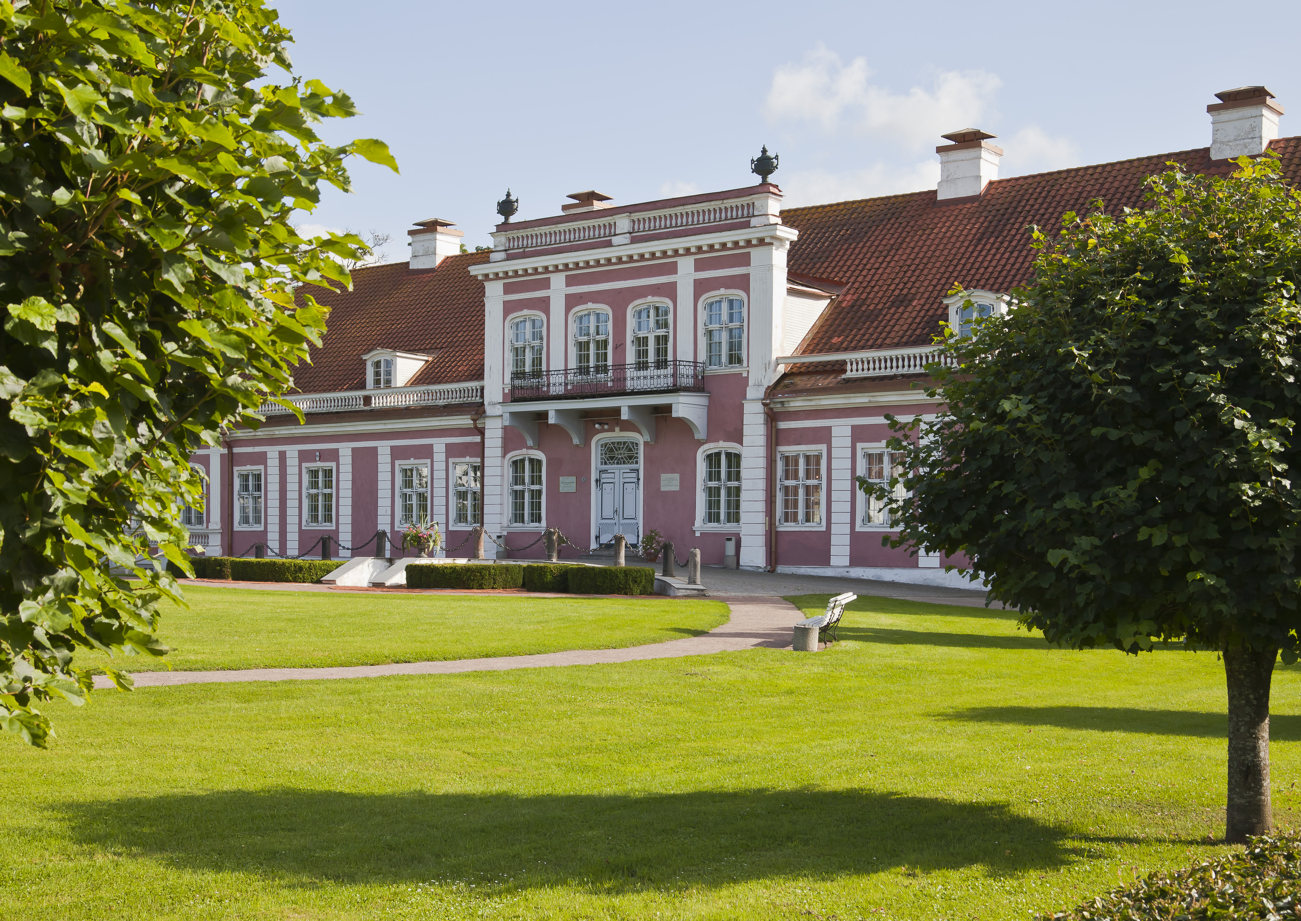 Sagadi manor, Estonia